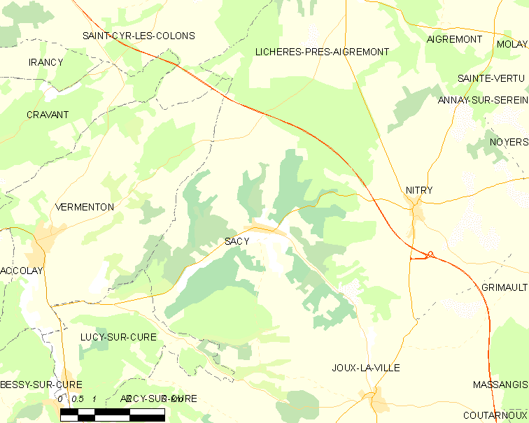 Map of French municipality Sacy